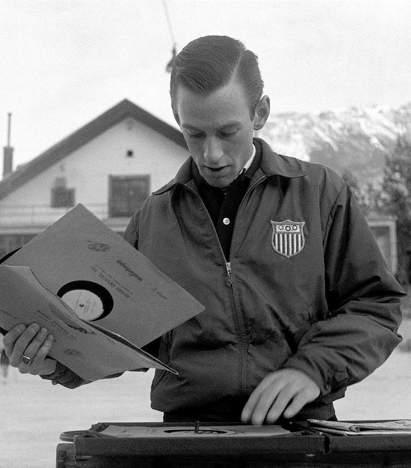 American figure skater David Jenkins choosing a record before starting the training during the VII Olympic Winter Games. Cortina d'Ampezzo, 1956